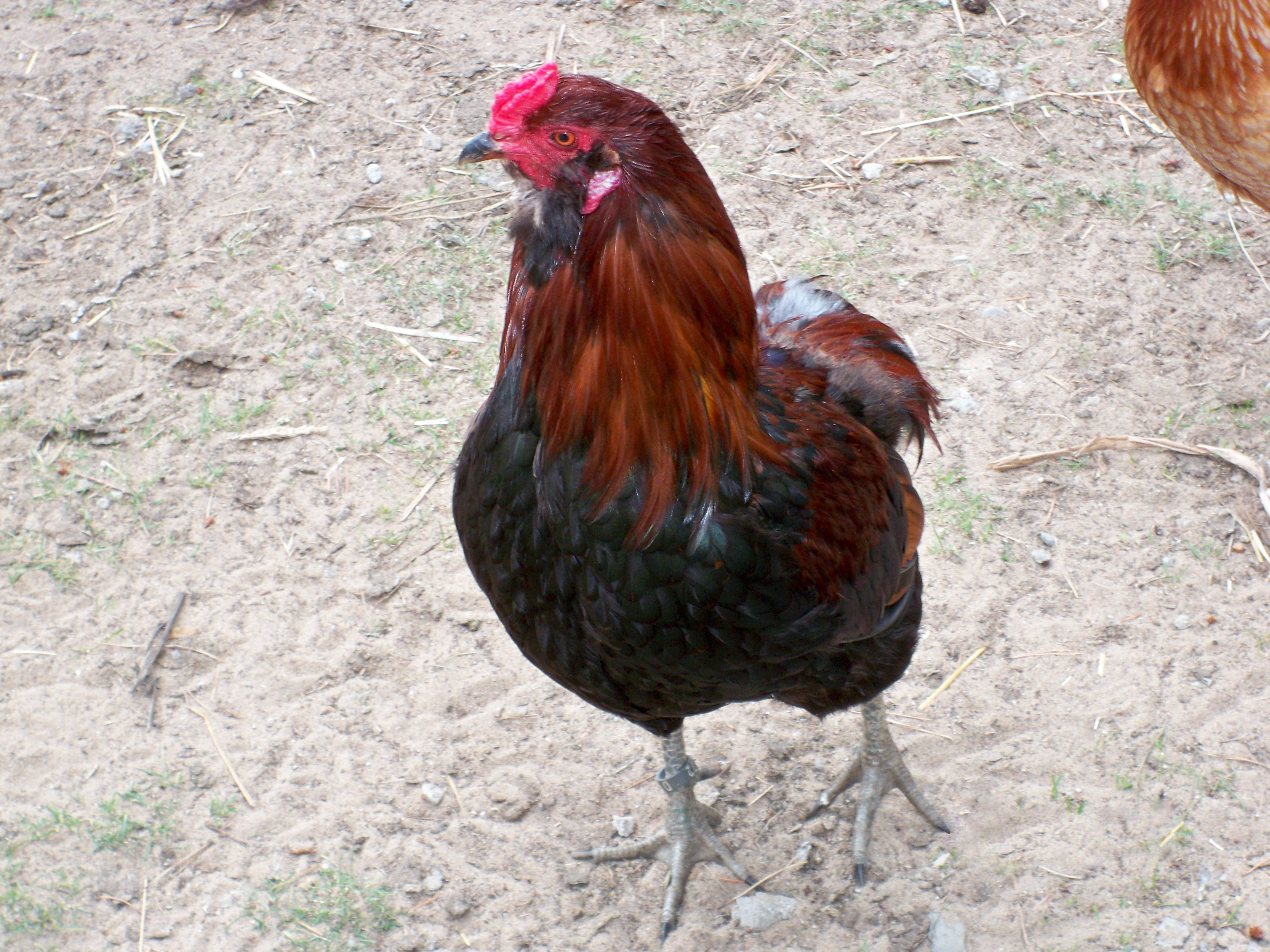 Aracuana Cock qutside